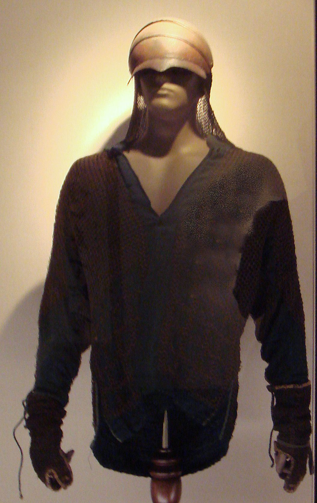 Kusari katabira (coat of mail) and hachi gane (forehead protector) of Kondo Isami, Ryozen Museum of History, Kyoto Japan.